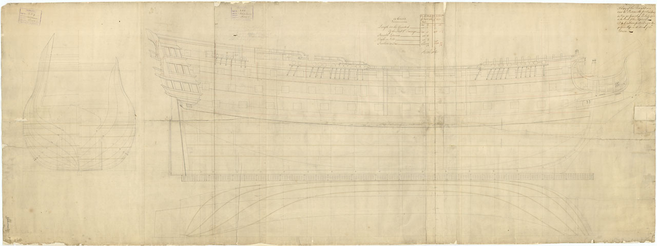 Body plan, sheer lines, and longitudinal half-breadth for Neptune (1756) and Union (1756), both 90-gun Second Rate, three-deckers. The plan indicates proposed alterations dated 1754 during their construction. Signed by Joshua Allin (Surveyor of the Navy, 1716-1755).